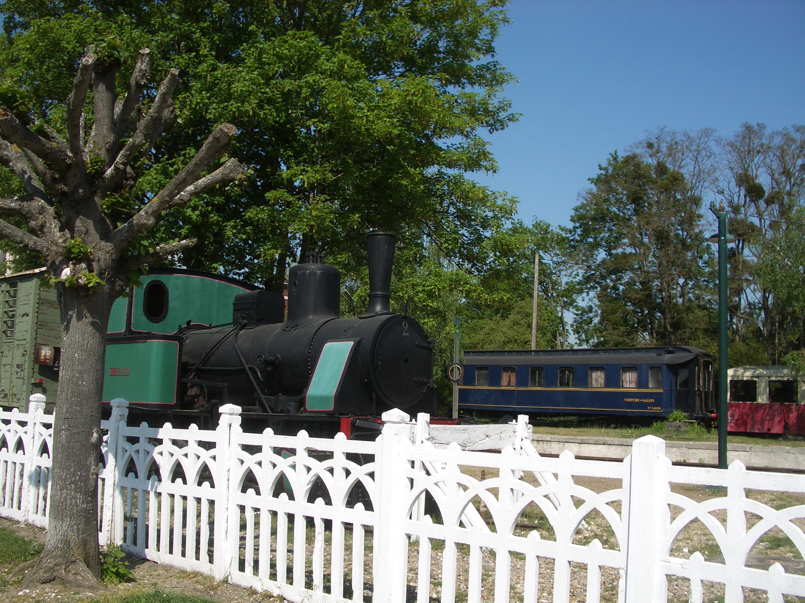 Pacy-sur-Eure (Eure) station railway - old trains